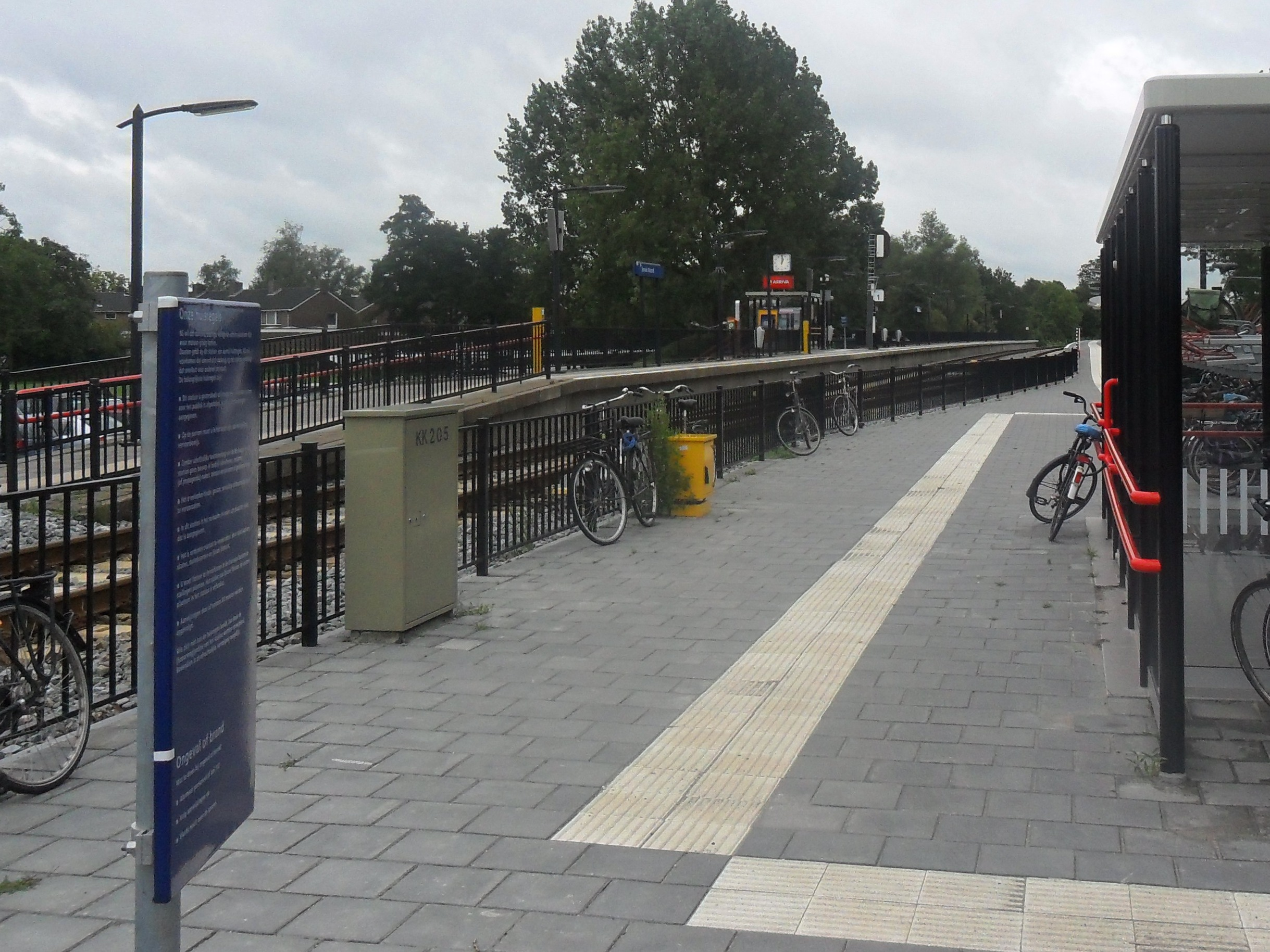 Sneek Noord Railway station in 2011.